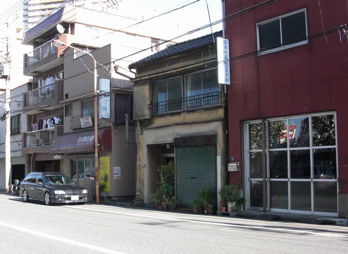 Agatsumabashi, Sumida, Tokyo, Japan